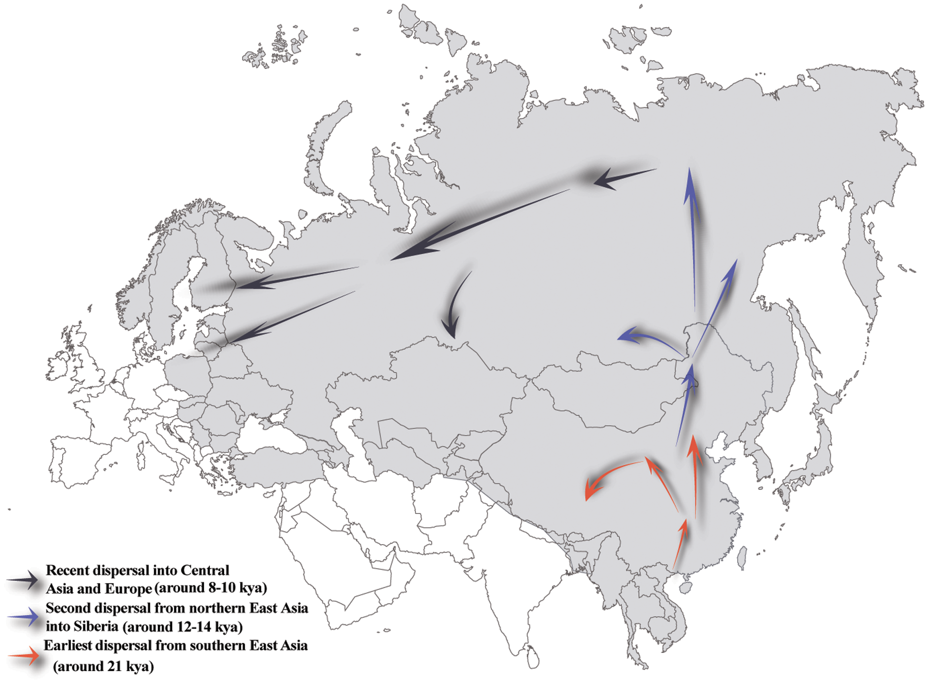 Proposed prehistoric migration routes for Y-chromosome haplogroup N lineage. The shaded areas represent the haplogroup N distributions. Based on the dating of the Hg N haplotypes and their geographic distributions paired with the suggested counter-clock-wise migratory route across Eurasia, we proposed a migratory map of the Hg N lineages beginning in southern China about 21 kya, and expanding into northern China 12–18 kya, reaching further north to Siberia about 12–14 kya, and followed by a population expansion and westward migration into Central Asia and East/North Europe around 8.0–10.0 kya.